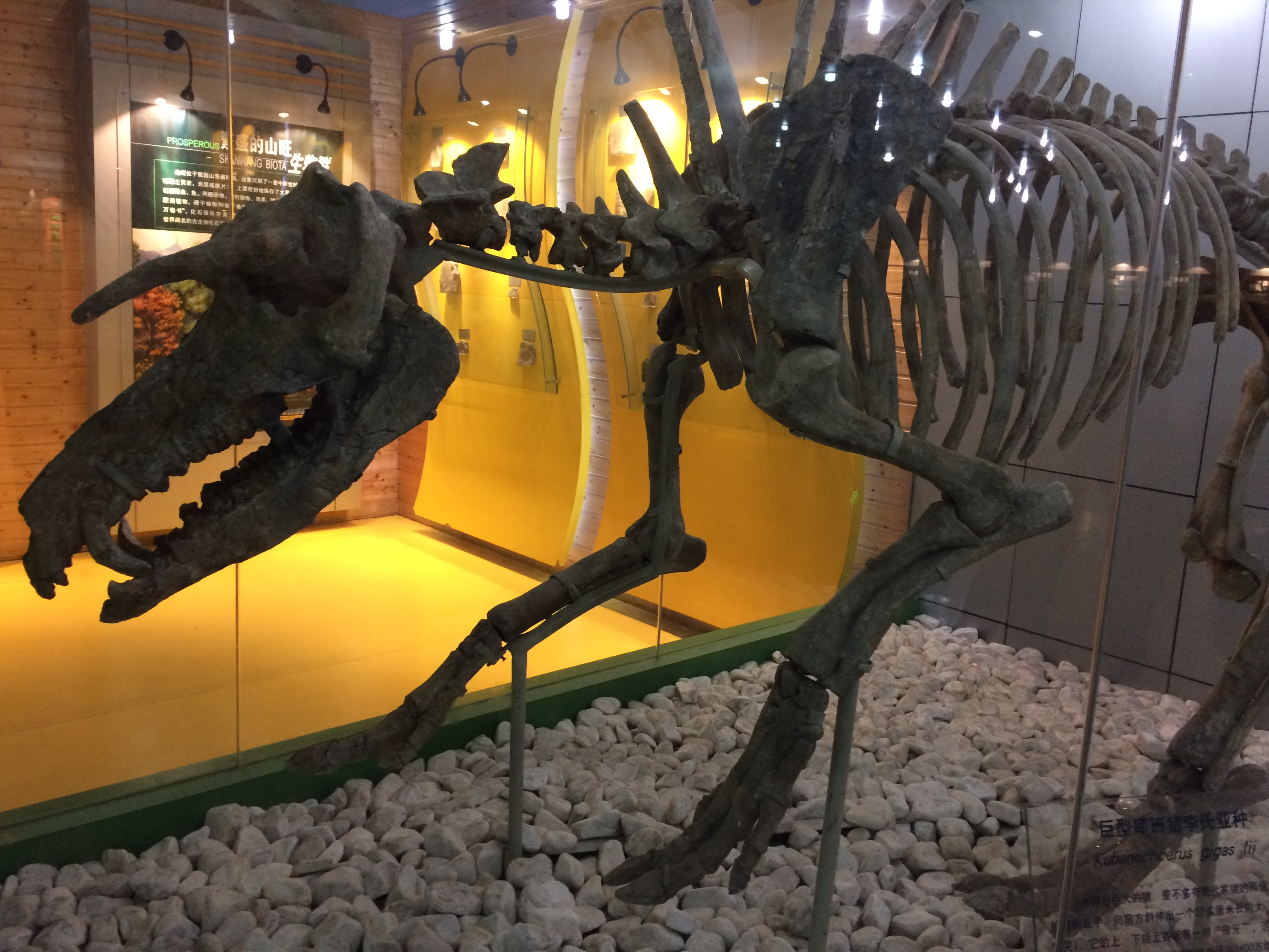 Kubanochoerus skeleton at the Beijing Museum of Natural History.